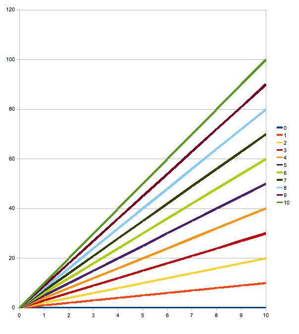 Multiplication of numbers 0-10. Line labels = first number. X axis = second number. Y axis = product.